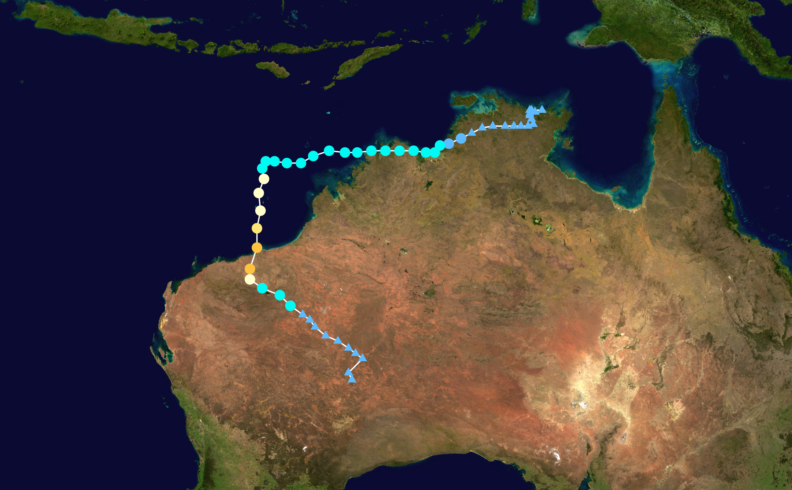 Track map of Severe Tropical Cyclone George of the 2006-07 Australian region cyclone season. The points show the location of the storm at 6-hour intervals. The colour represents the storm's maximum sustained wind speeds as classified in the Saffir–Simpson scale (see below), and the shape of the data points represent the nature of the storm, according to the legend below. Saffir–Simpson scale Tropical depression≤38 mph≤62 km/h Category 3111–129 mph178–208 km/h Tropical storm39–73 mph63–118 km/h Category 4130–156 mph209–251 km/h Category 174–95 mph119–153 km/h Category 5≥157 mph≥252 km/h Category 296–110 mph154–177 km/h Unknown Storm type Tropical cyclone Subtropical cyclone Extratropical cyclone / Remnant low / Tropical disturbance / Monsoon depression